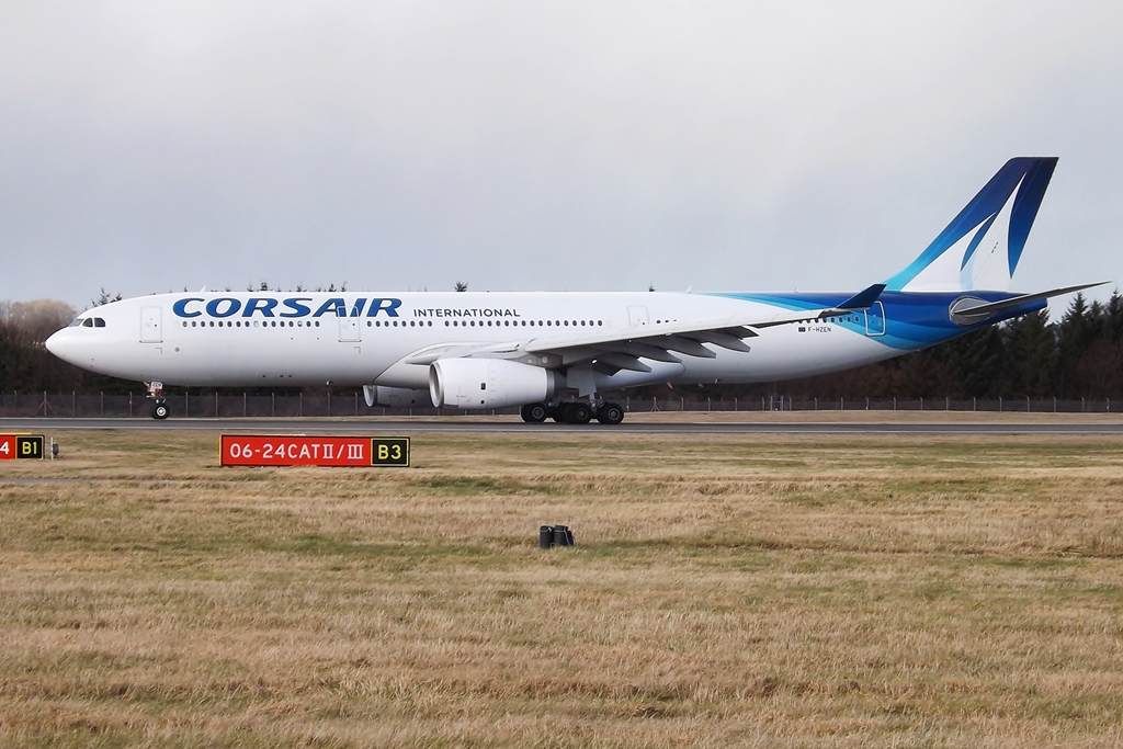 F-HZEN A330 Corsair